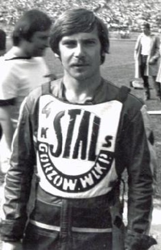 Stanislaw Racieda - polish speedway rider.